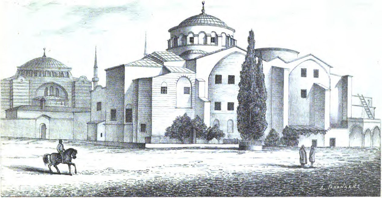 Byzantinai meletai topographikai (1877) Author: Paspatēs, Alexandros Geōrgiou, 1814-1891. [from old catalog] Subject: Inscriptions, Greek Year: 1877 Possible copyright status: NOT_IN_COPYRIGHT Language: English Digitizing sponsor: Google Book contributor: Oxford University Collection: europeanlibraries